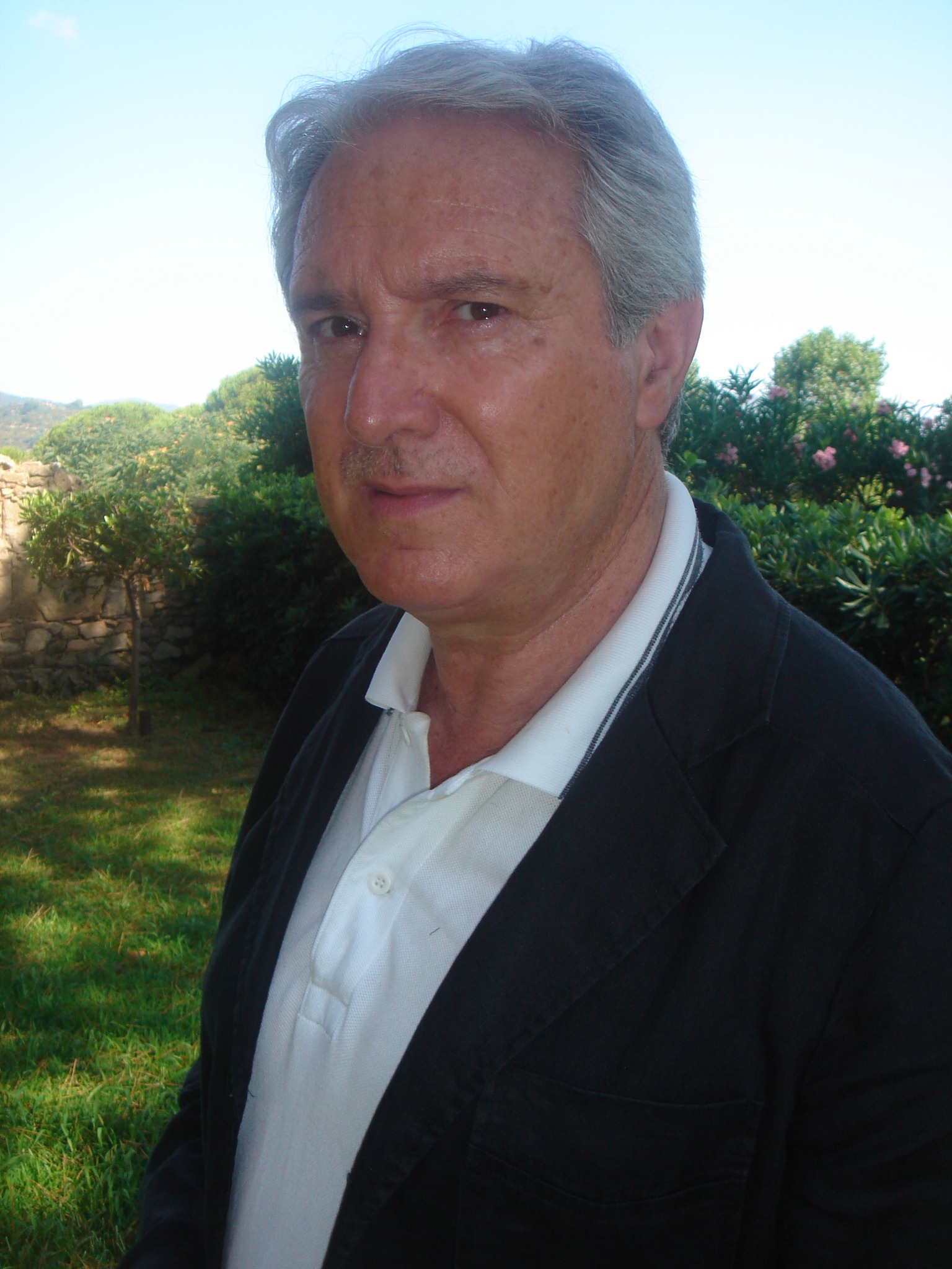 zeffiro ciuffoletti